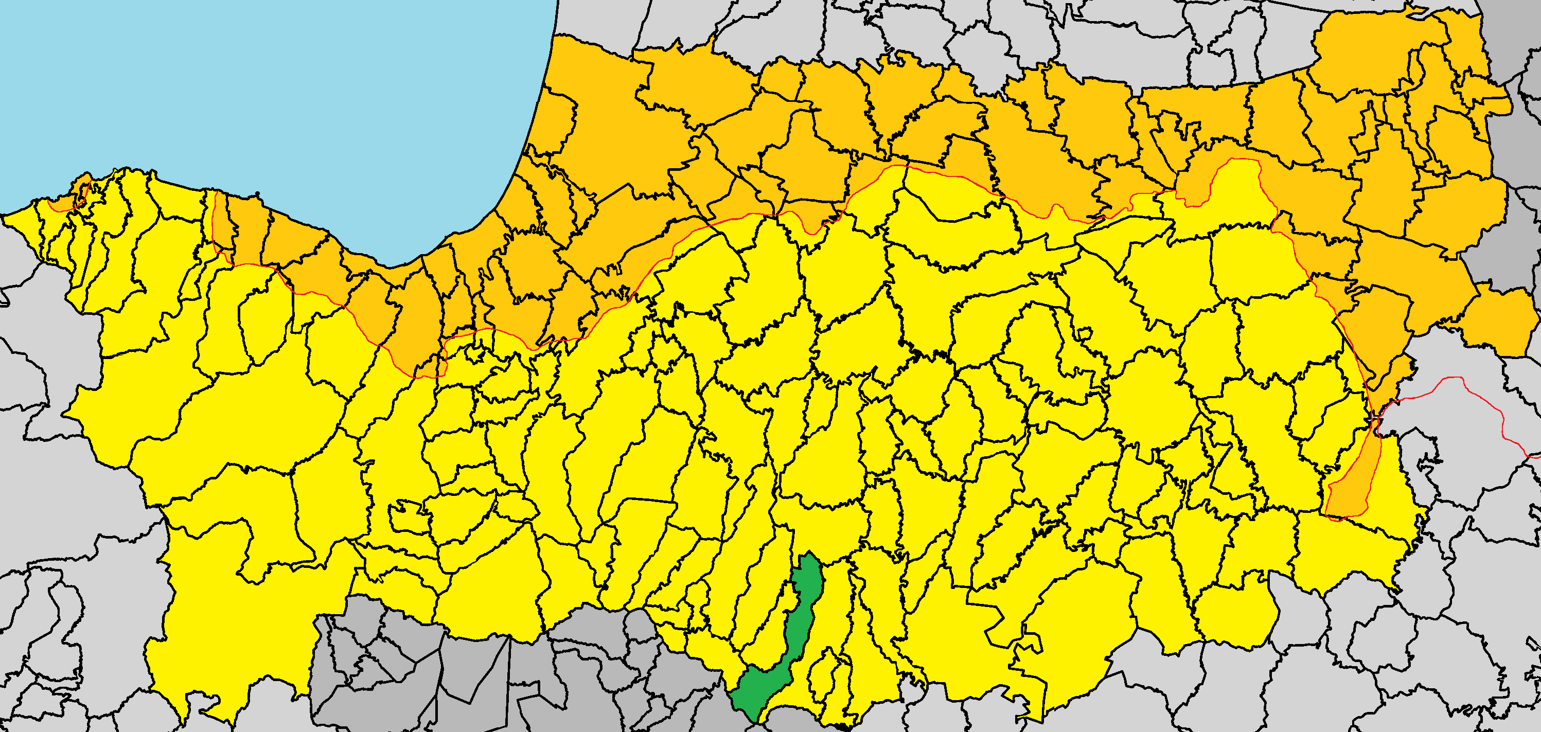 Palaichori Morphou in Nicosia District.